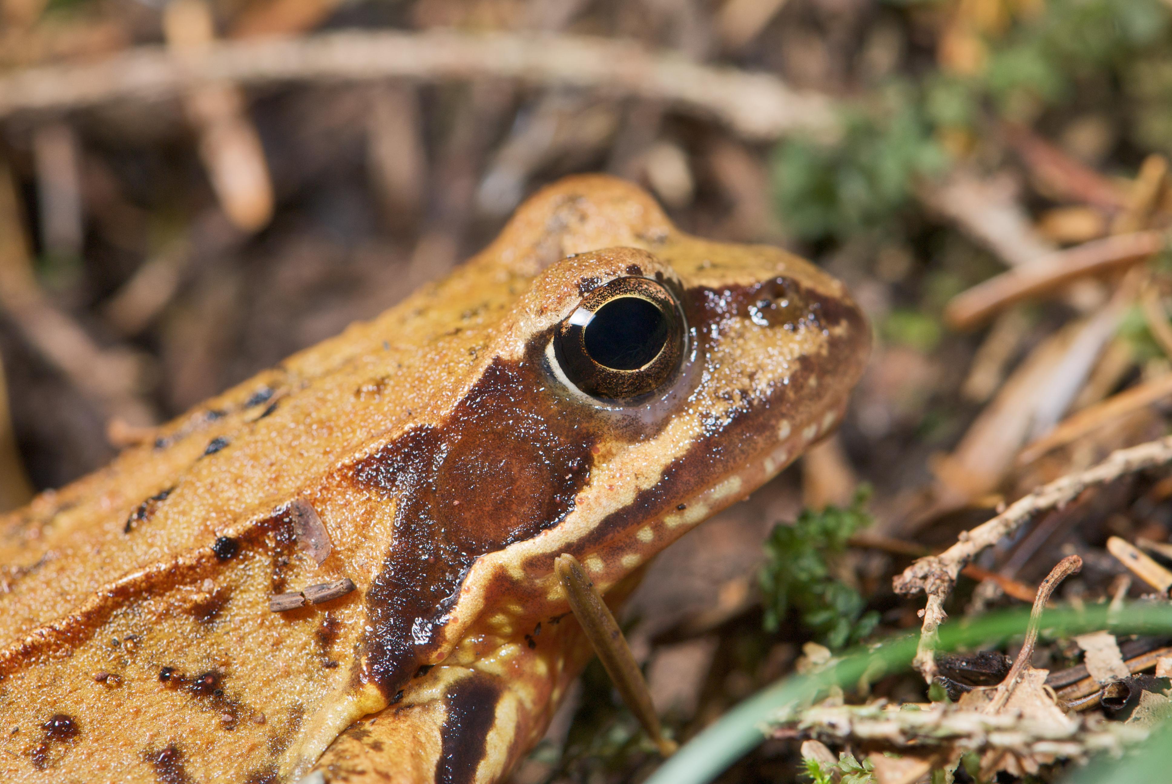 The Common Frog (Rana temporaria) can be found throughout much of Europe. The specimen in the picture is a fully-grown female with a length of about 90 mm – measured from head to abdomen.